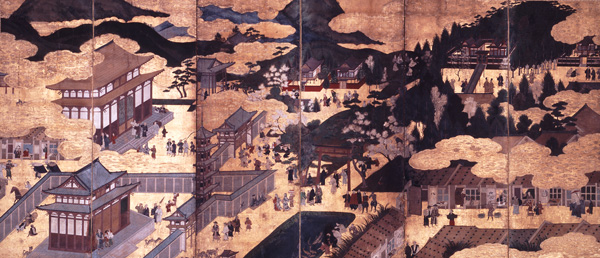 Famous Places of Nara, Hosomi Museum, Kyoto, Kyoto, Japan